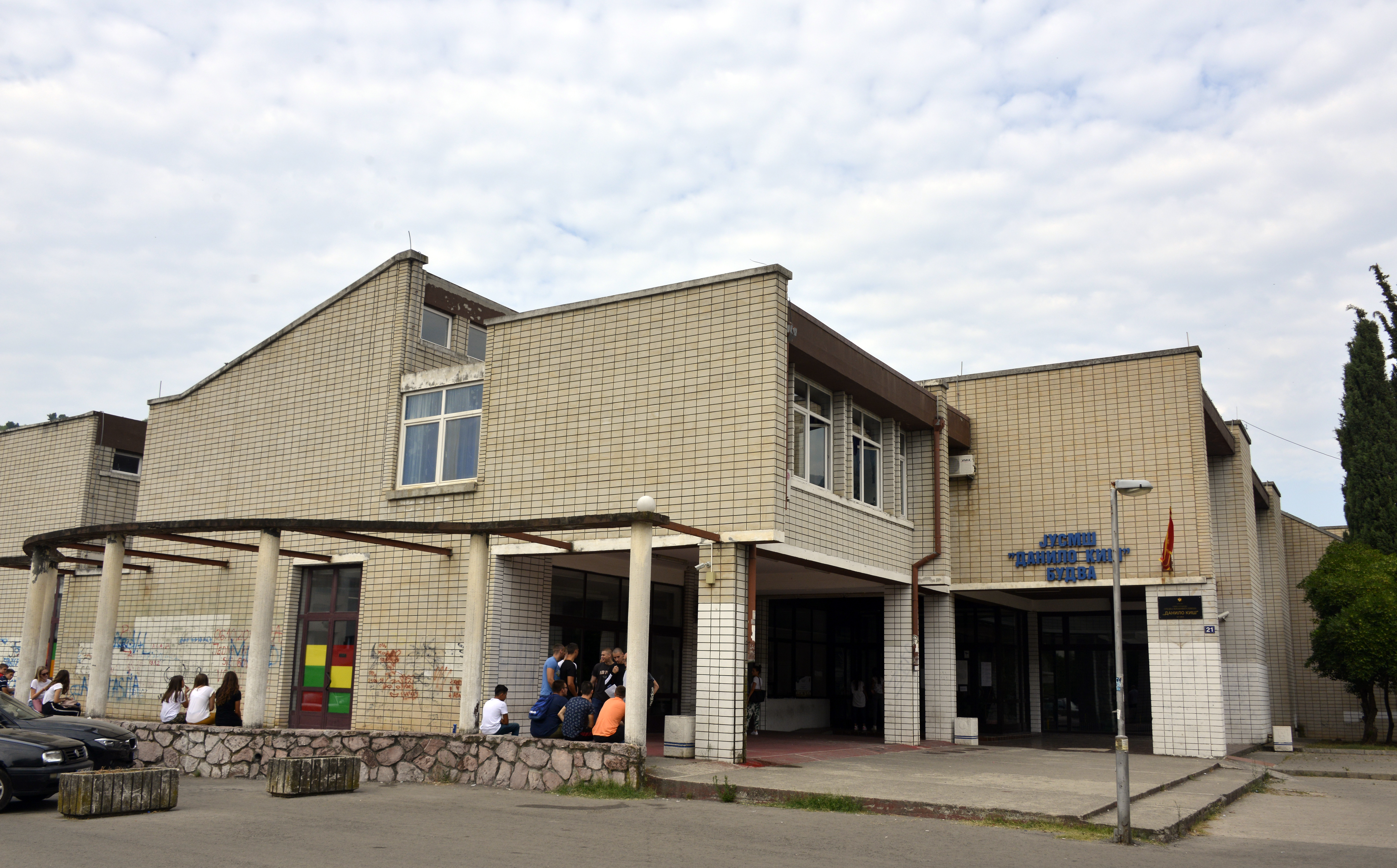 High school "Danilo Kiš" in Budva, Montenegro